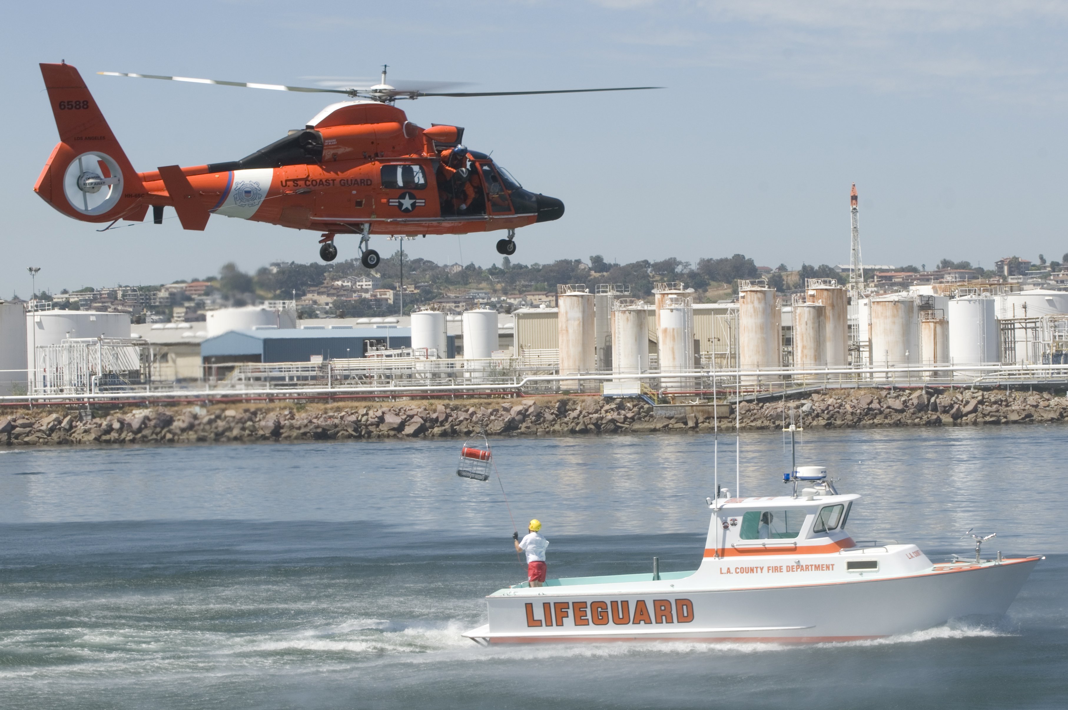 SAN PEDRO, California – Crews from Air Station Los Angeles and Baywatch Cabrillo demonstrate search and rescue techniques at Sector Los Angeles-Long Beach. The demonstration is part of a media availability to increase the public awareness of inter-agency search and rescue efforts in the area.